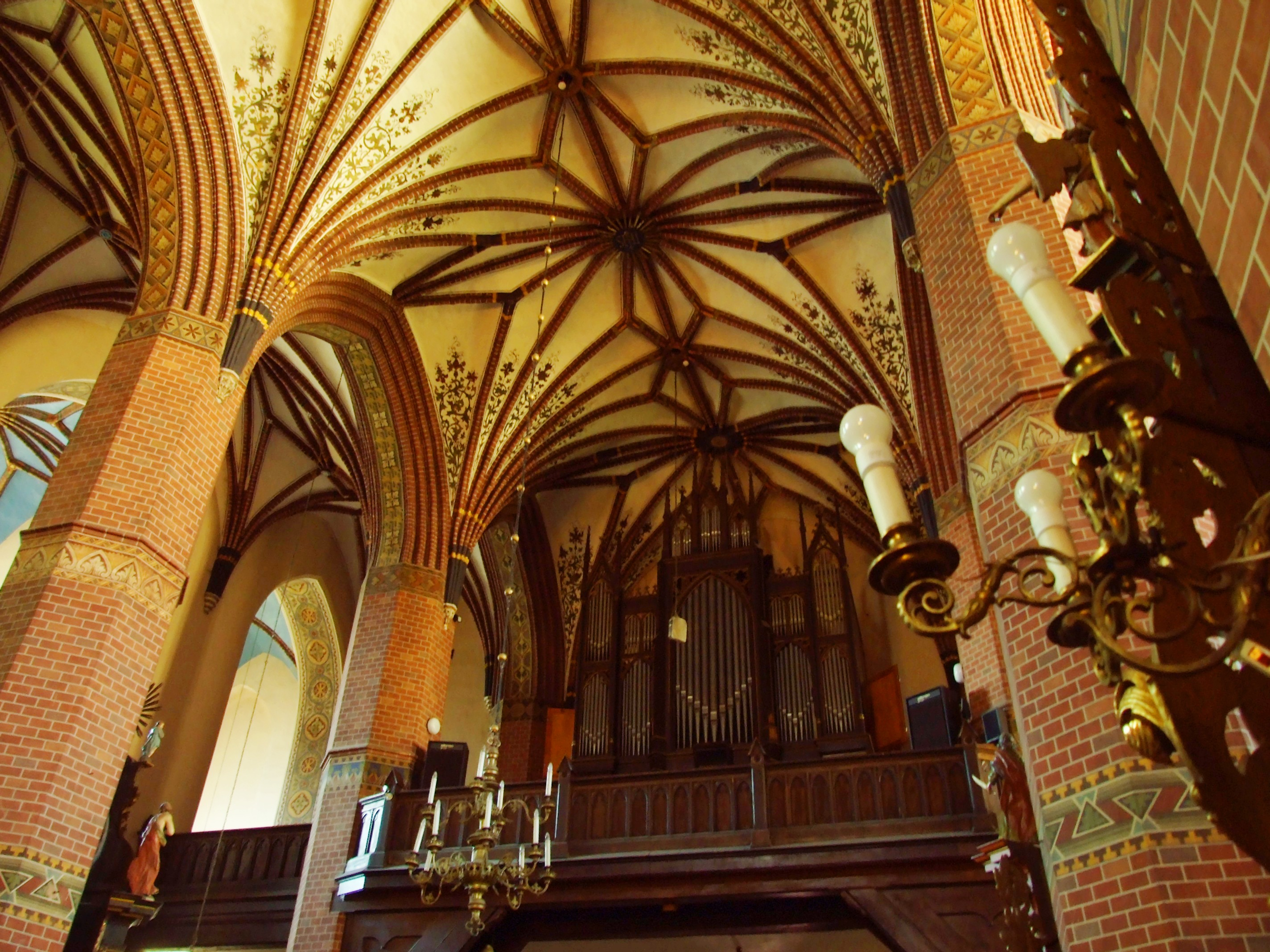 Inside of the Church of the Holy Cross in Tczew - organs and main nave. Pomeranian voivodeship, Poland